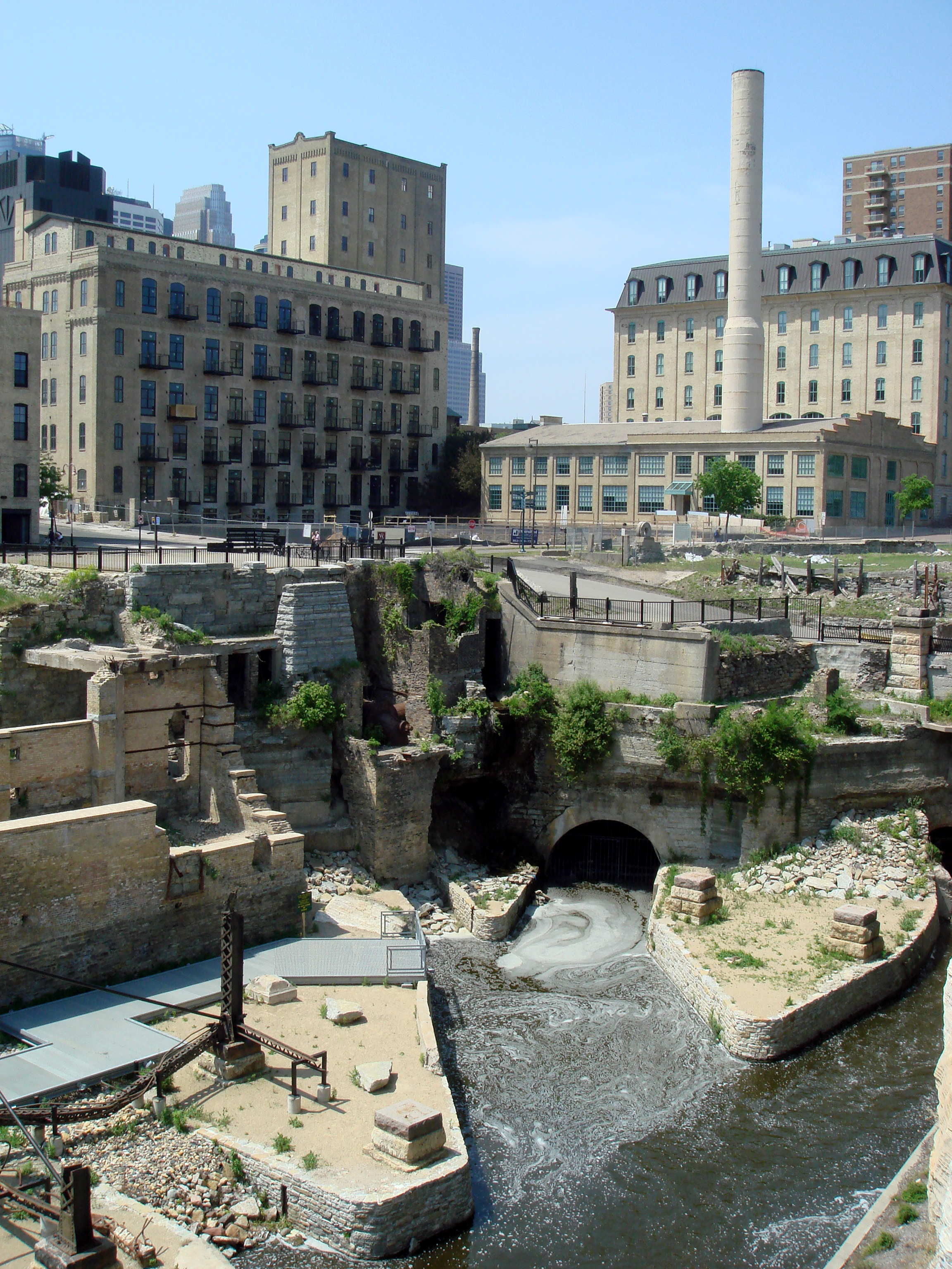 Mill Ruins Park in Minneapolis, Minnesota, showing some of the former mills that have been converted into condos (left) and offices (right).